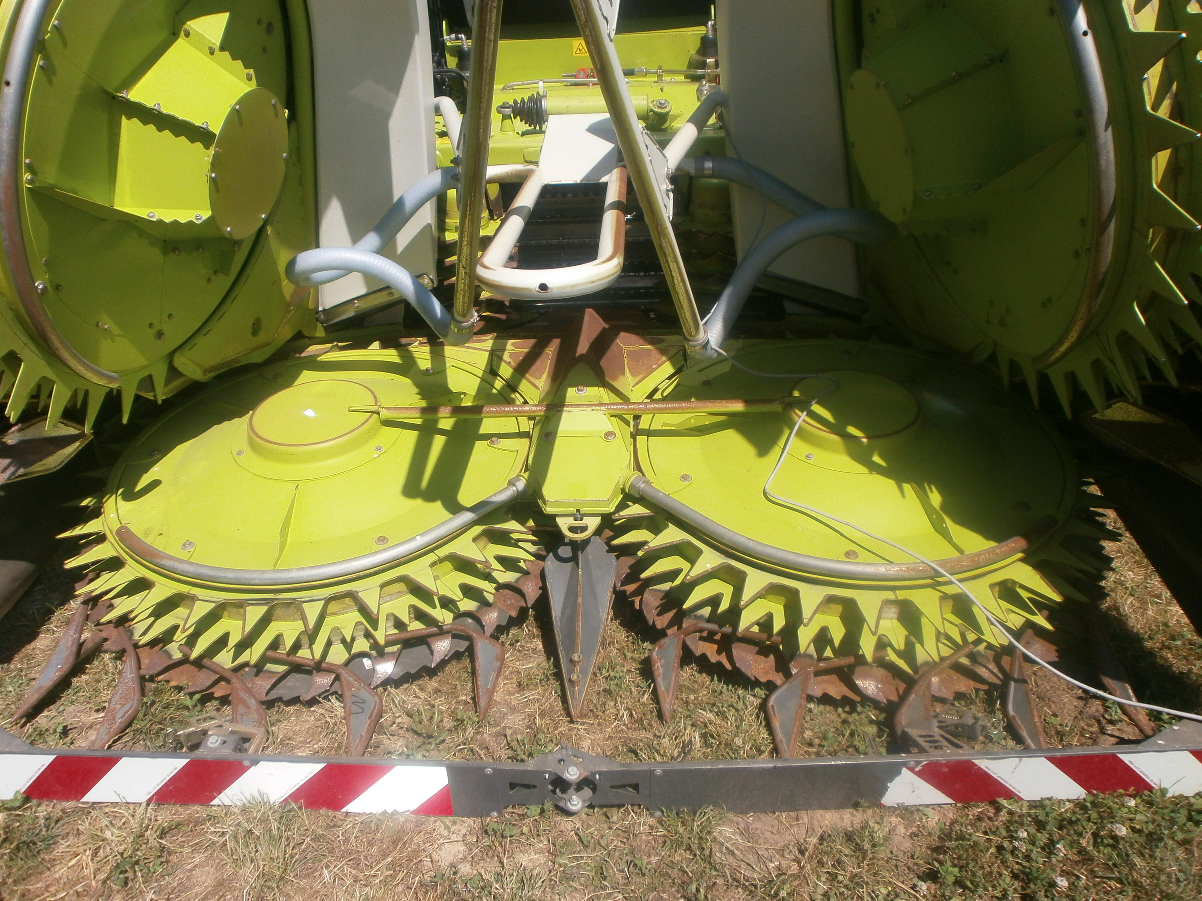 Ensileuse de marque Claas Jaquar 940